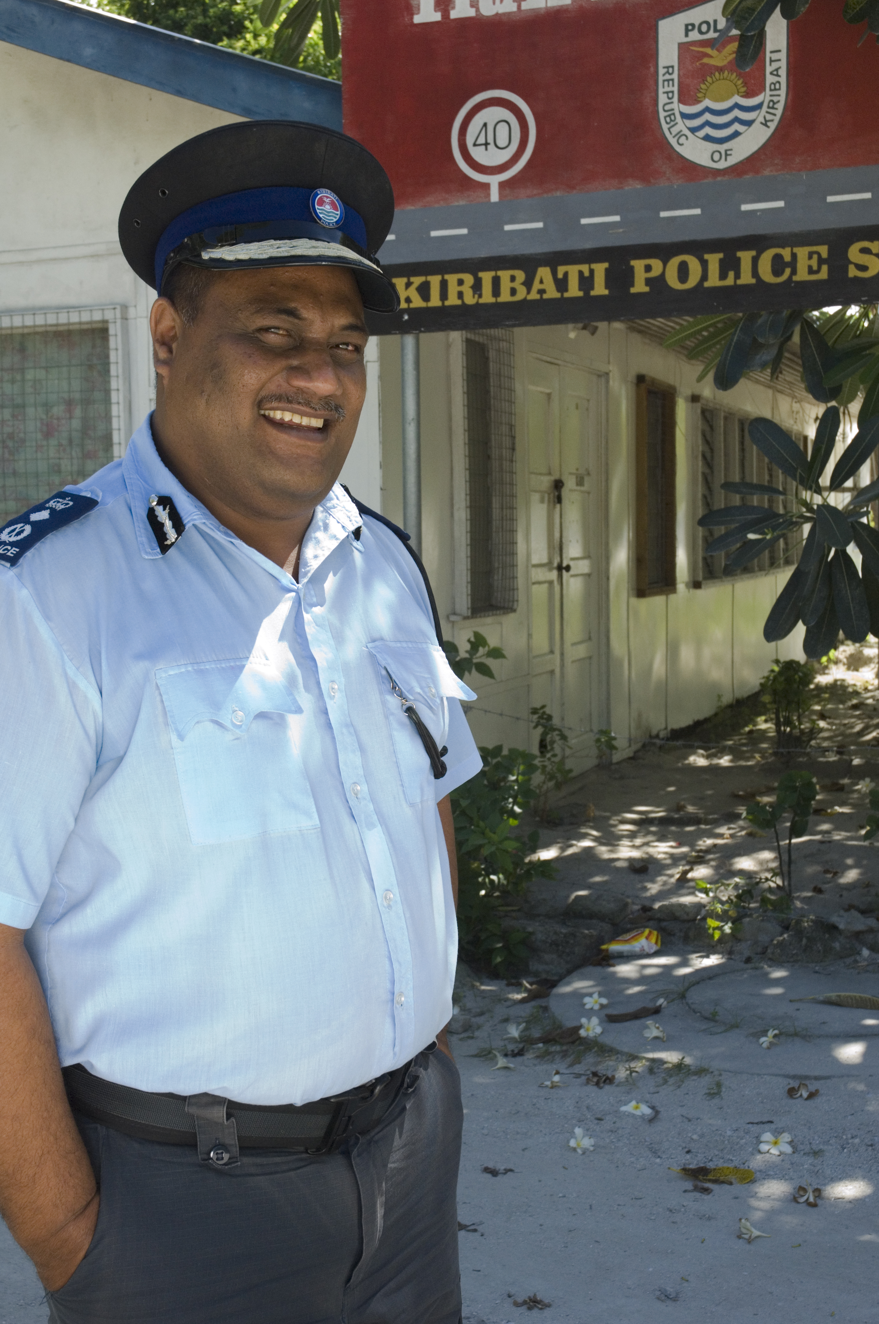 Australian Scholarship recipient Commissioner of Police Ioeru Tokantetaake. Kiribati 2007.